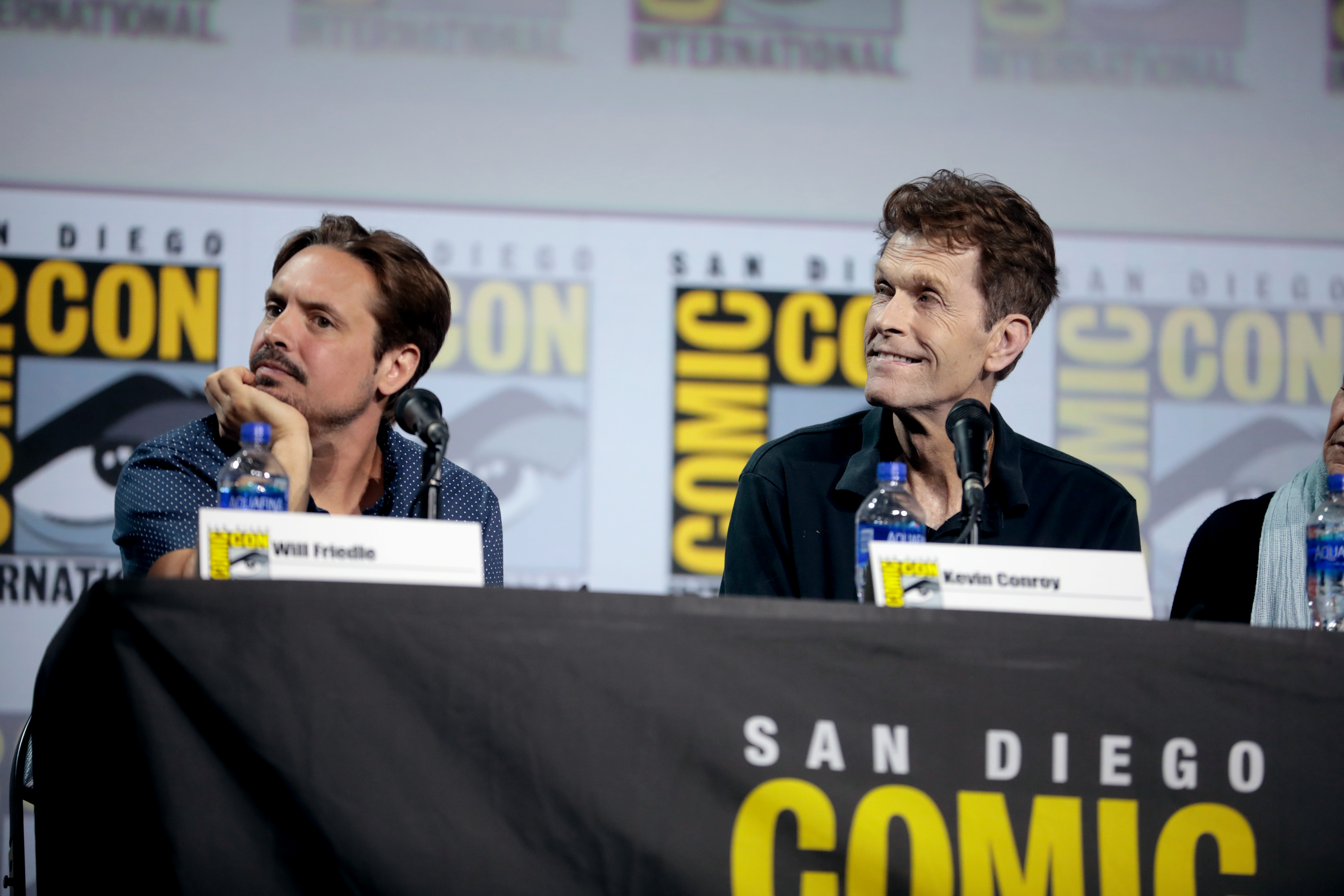 Will Friedle and Kevin Conroy speaking at the 2019 San Diego Comic Con International, for "Batman Beyond 20th Anniversary", at the San Diego Convention Center in San Diego, California.